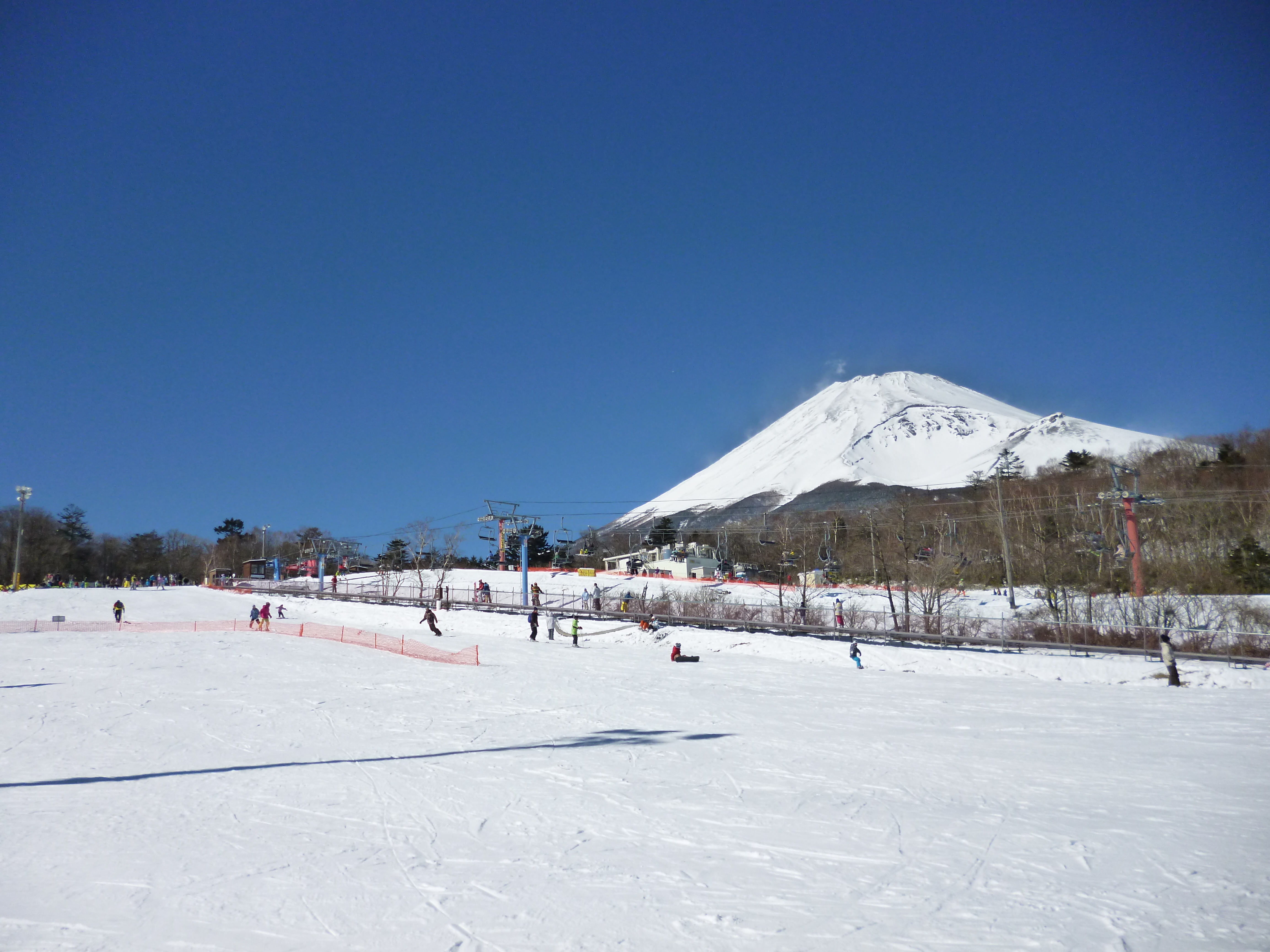 Snowtown Yeti and Mt. Fuji in Susono, Shizuoka, Japan.